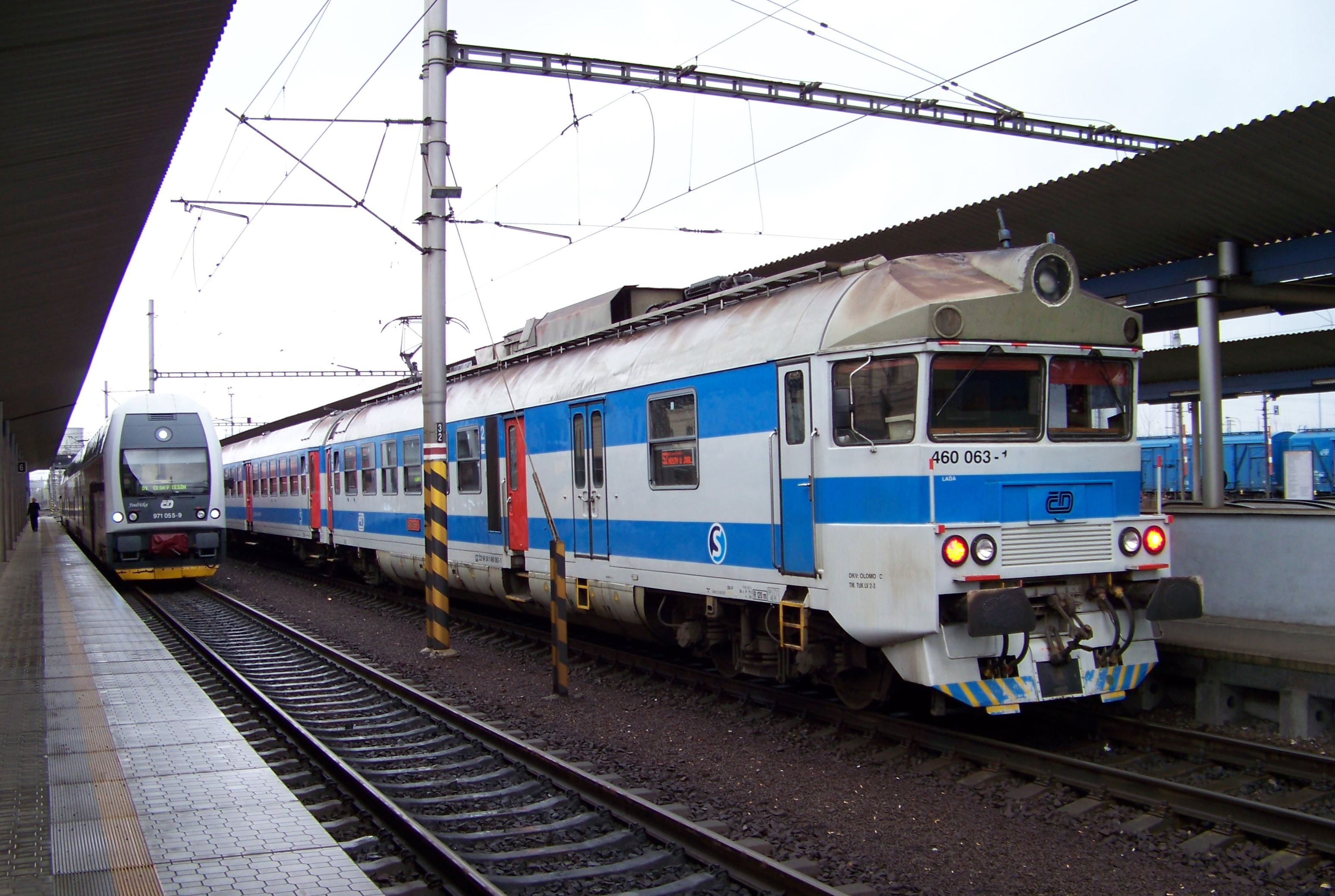 Ostrava-Svinov, Moravian-Silesian Region, the Czech Republic. Train station Ostrava-Svinov. Electric multiple units.